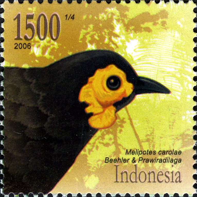 Stamps of Indonesia